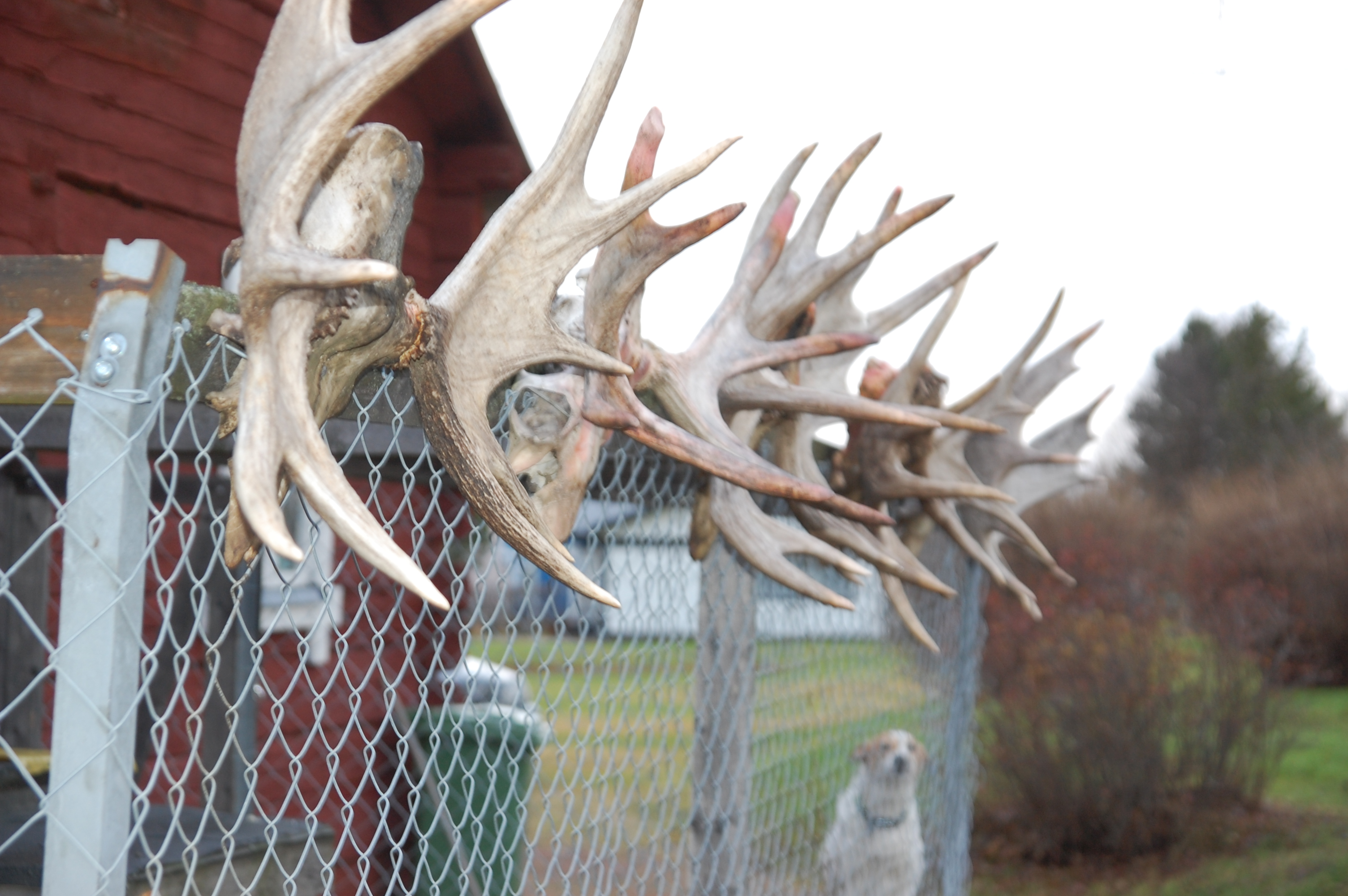 Älgjakt, Pajala